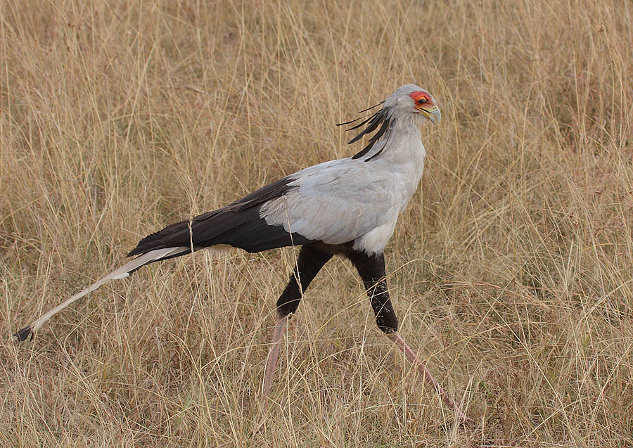 A Secretarybird in Masai Mara, Kenya.